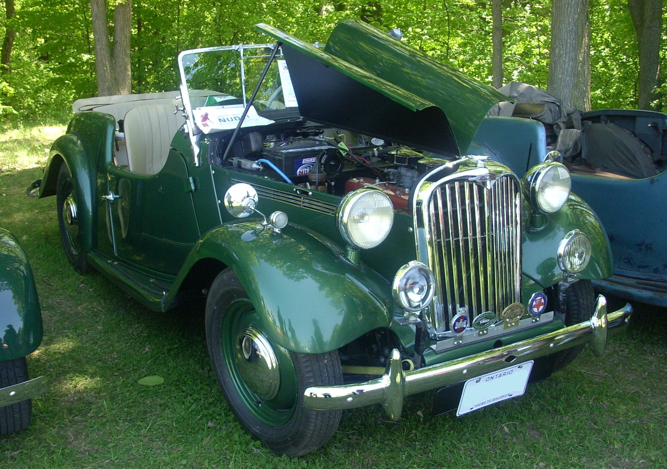 1954 Singer SM Roadster (4AD) photographed at the 2008 Hudson British Car Show.